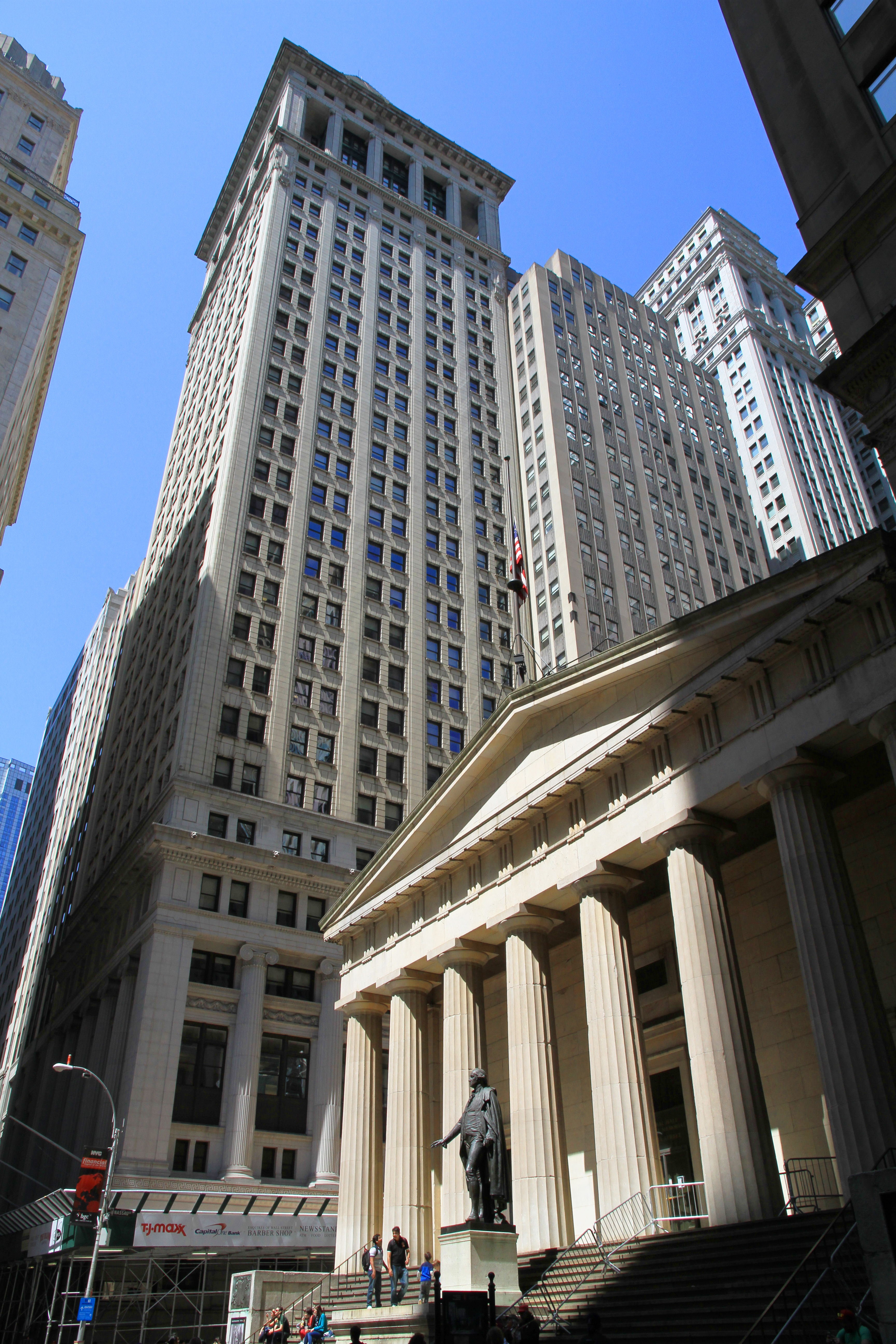 Federal Hall National Memorial